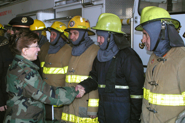 Brig. Gen. Maria Falca-Dodson (left) shakes hands with Albanian firefighters during a ceremony at which the New Jersey- Albania State Partnership Program donated a fire truck to the Albanian Fire Rescue Services Department. The fire truck will be used to support a weapons elimination project as well as supporting routine firefighting capabilities of the Fire Rescue Services Department.